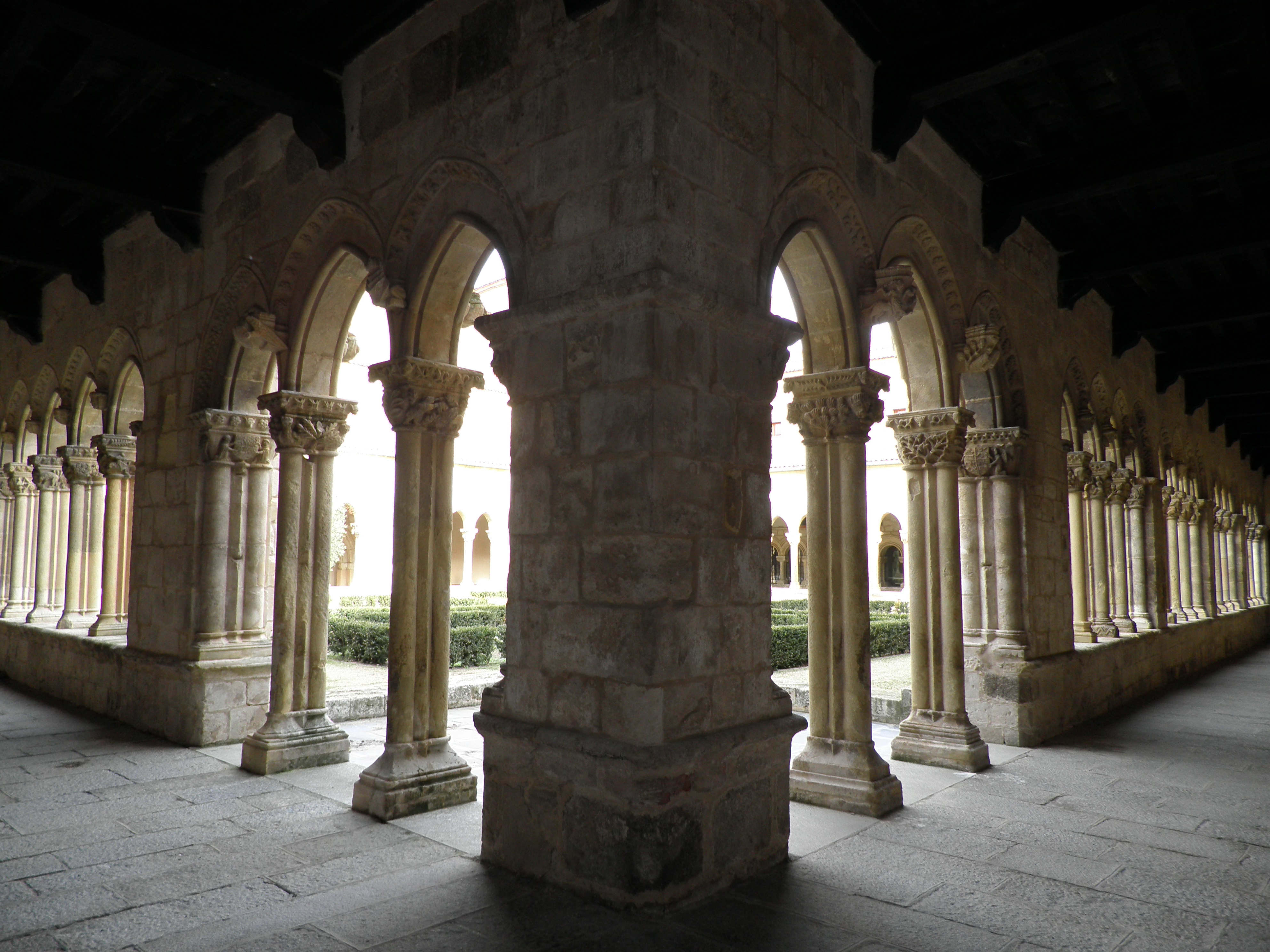 Southern corner in the cloister of the church of Santa María la Real de Nieva, Segovia province, Spain.